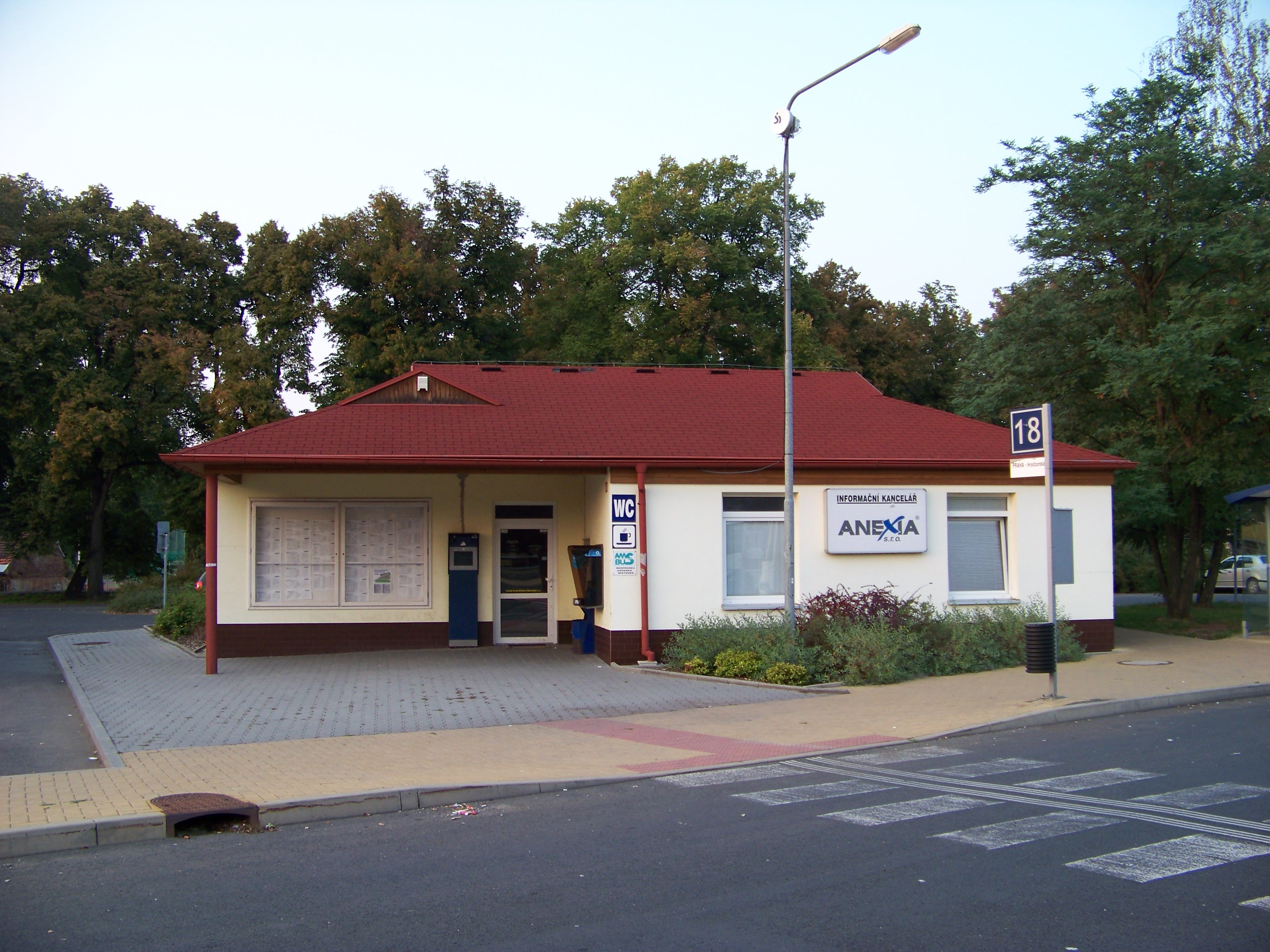 Rakovník II, Rakovník District, Central Bohemian Region, the Czech Republic. Bus station, office of Anexia company.